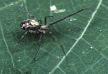 female Octonoba okinawensis from Okinawa.